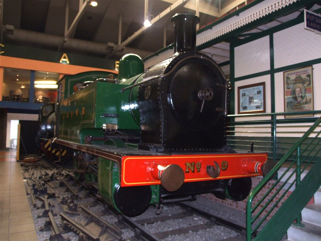 Namely the G&SWRs No 9 Ok here it is Glasgow and South Western Railway!